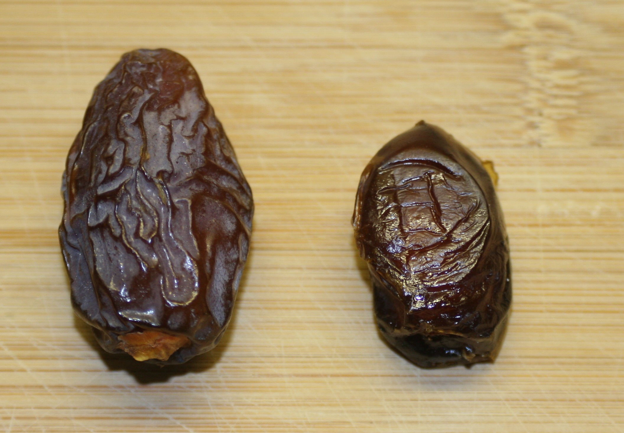 Two fruits of the Date Palm, The Left is a Medjool date, the right is a Khadrawi (or Hadrawi) date.